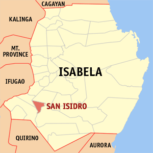 Map of Isabela showing the location of San Isidro